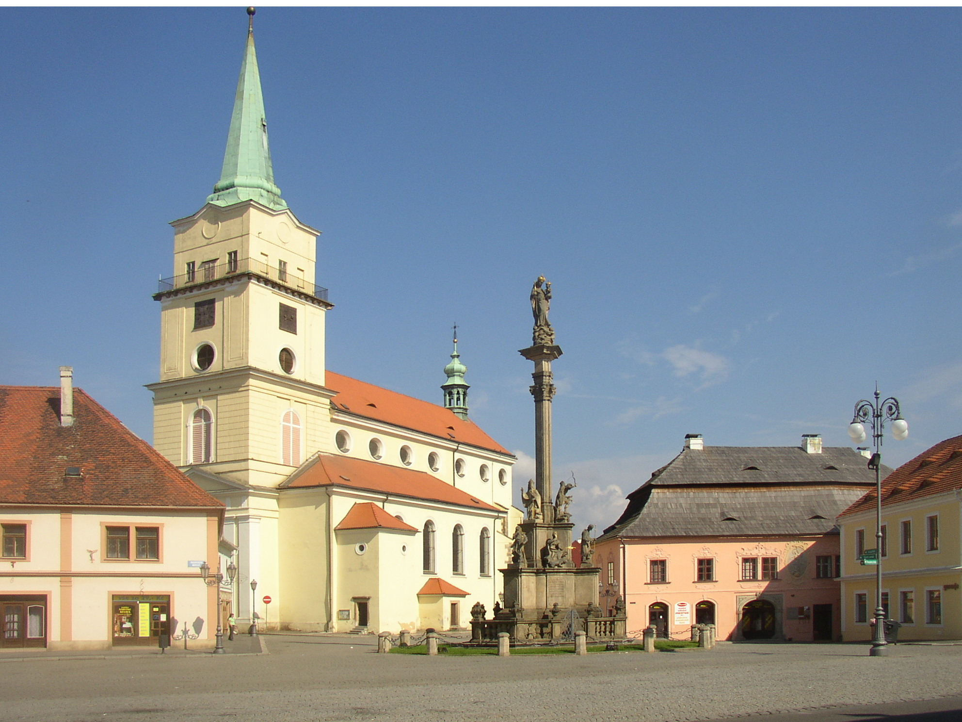 Rokycany, Josef Urban Square with church of Our Lady of the Snow and Marian column.